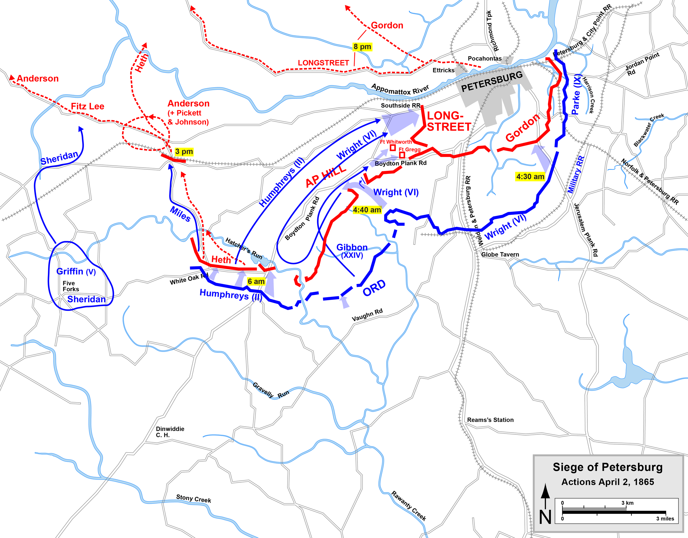 Map of the Siege of Petersburg of the American Civil War, actions April 2, 1865